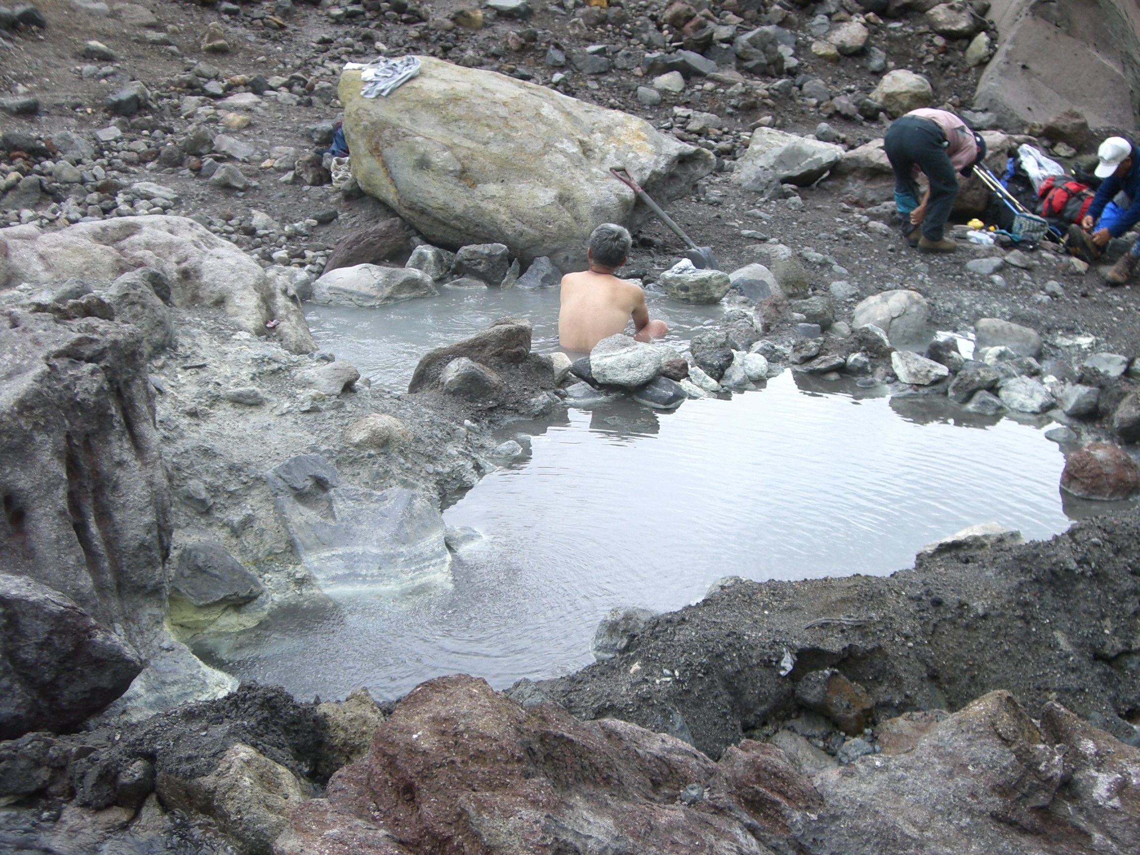 Nakadake_hotspring_daisetuzan